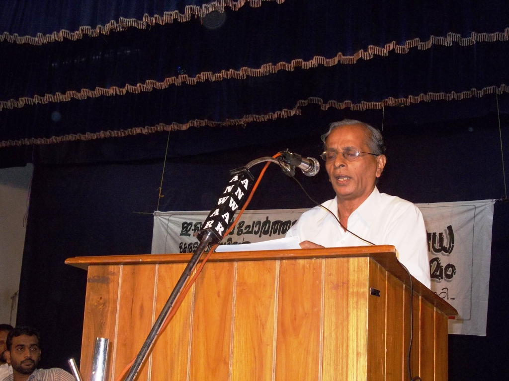 Adv. P.A. Pouran